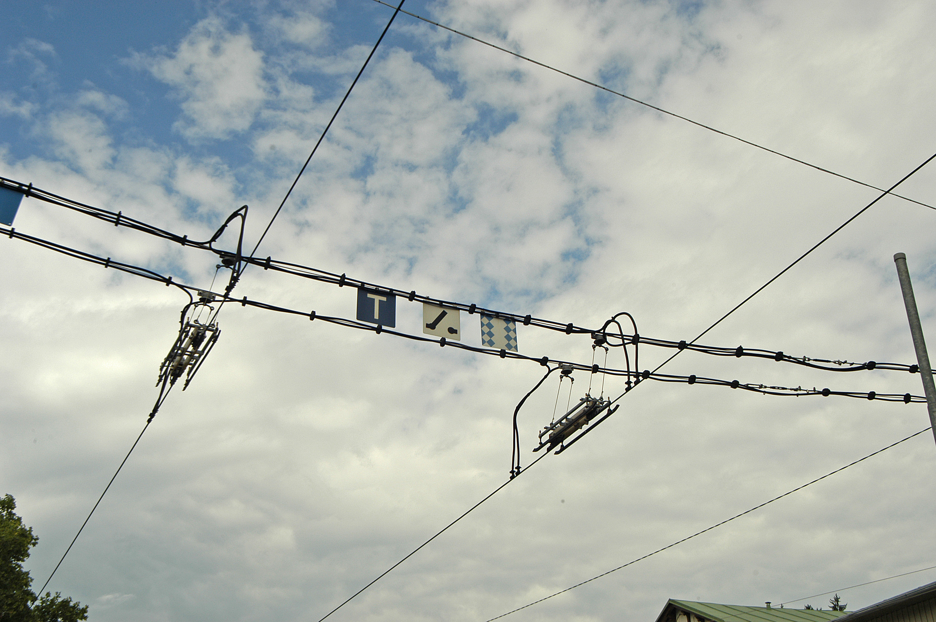 Tram catenary.